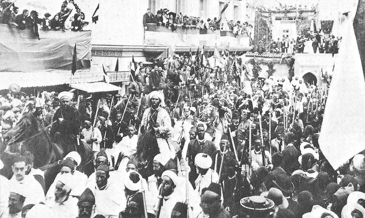 Kaiser Wilhelm II of Germany in Tangeri (1905.03.31)